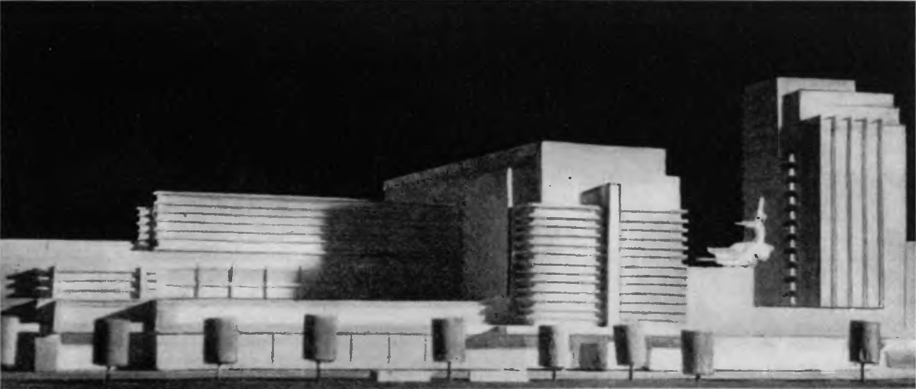 Photo of a diorama depicting one of the early versions of the project of the Warsaw Main Train Station (Dworzec Główny) Original English caption: One of the first projects of the Central Railway Station Building in Warsaw.